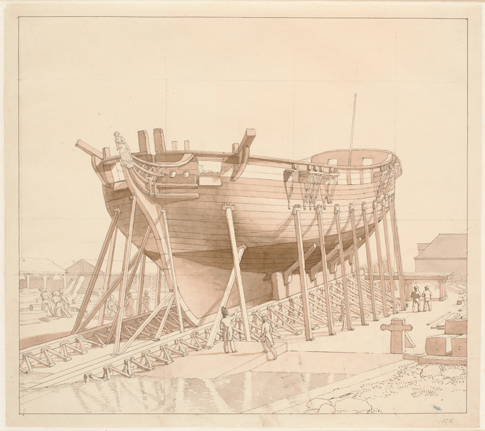 A corvette on the Stocks. Copenhagen. Drawing.